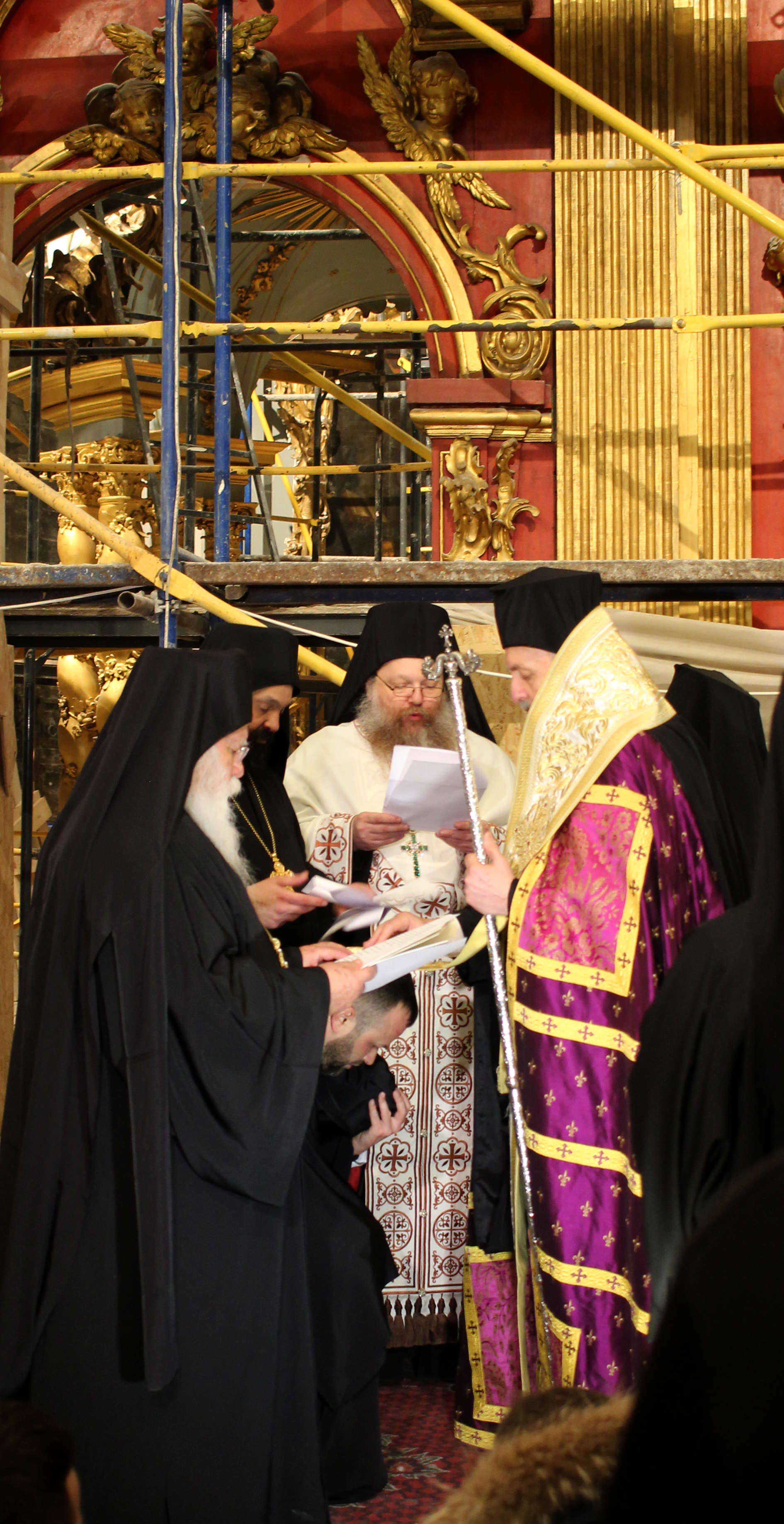 Сheirothesia of archimandrite Mychailo Anishchenko as Exarch of Ecumenical Partiarchate in stavropegian St. Andrii Church in Kyiv by metropolitan Emmanuel (Adamakis) of France. 2019-02-02.